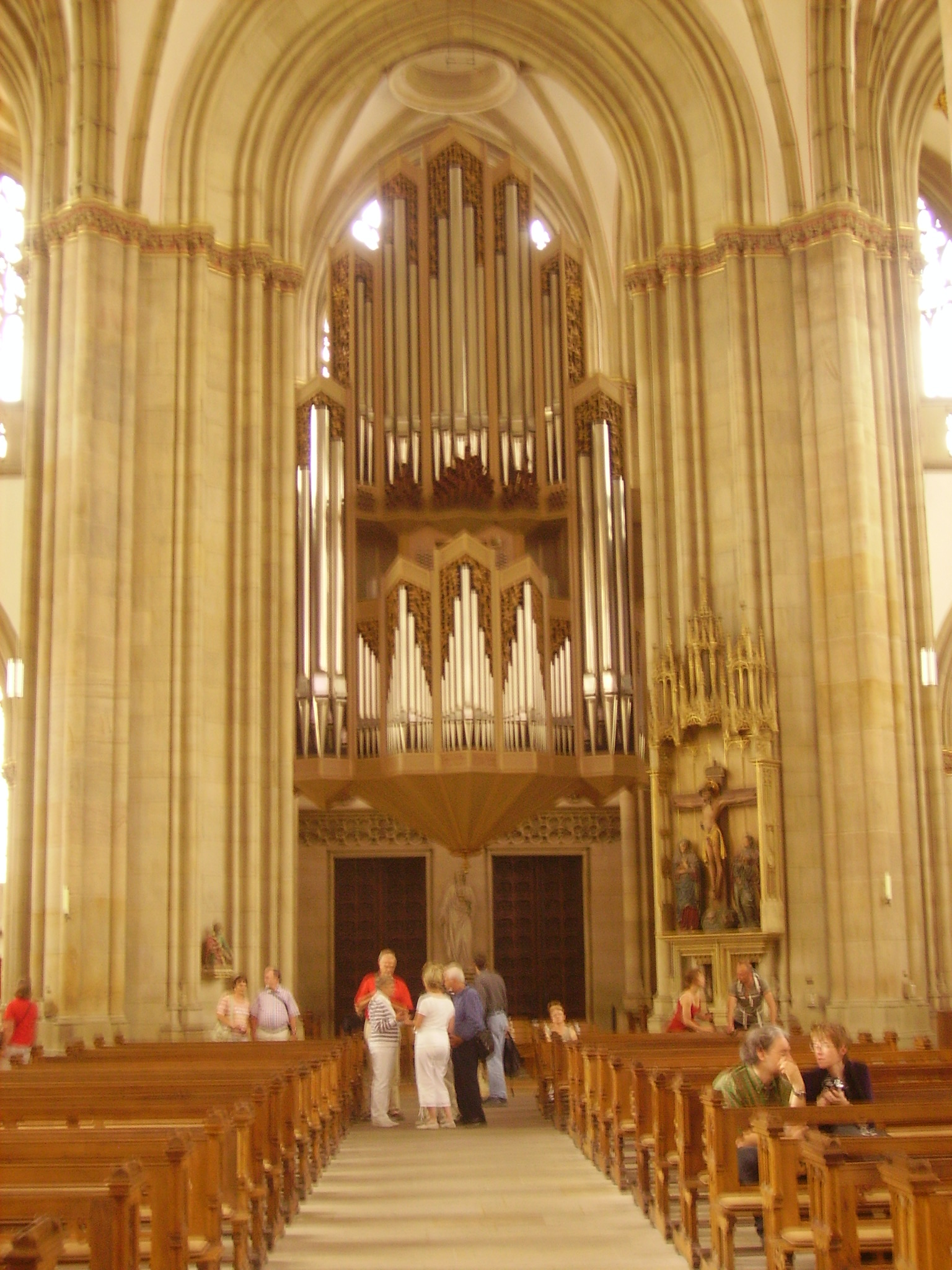 Organ of St.Lamberti, Münster